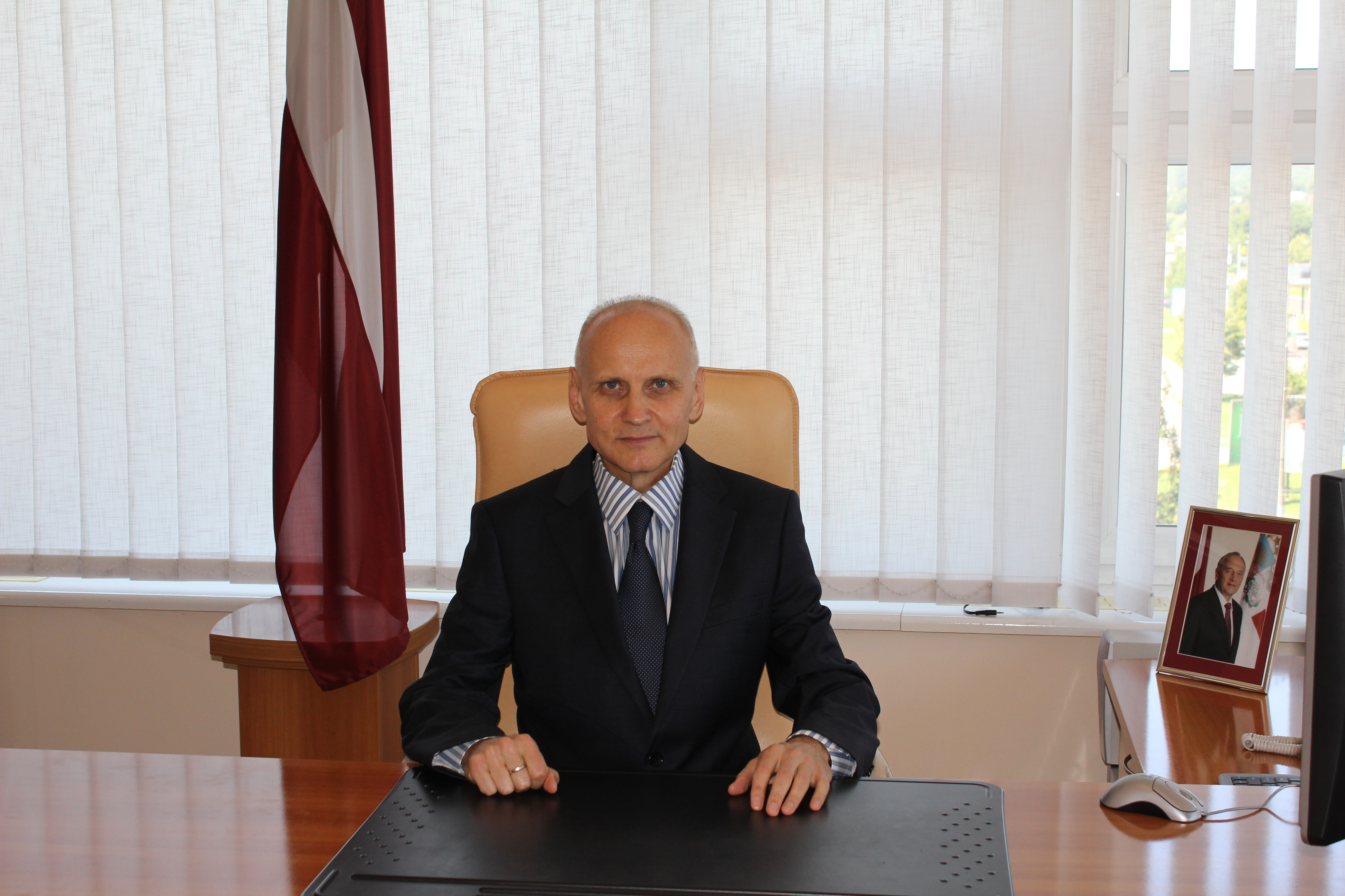 Volodymyr Hartsula, Honorary Consul of the Republic of Latvia in Lviv